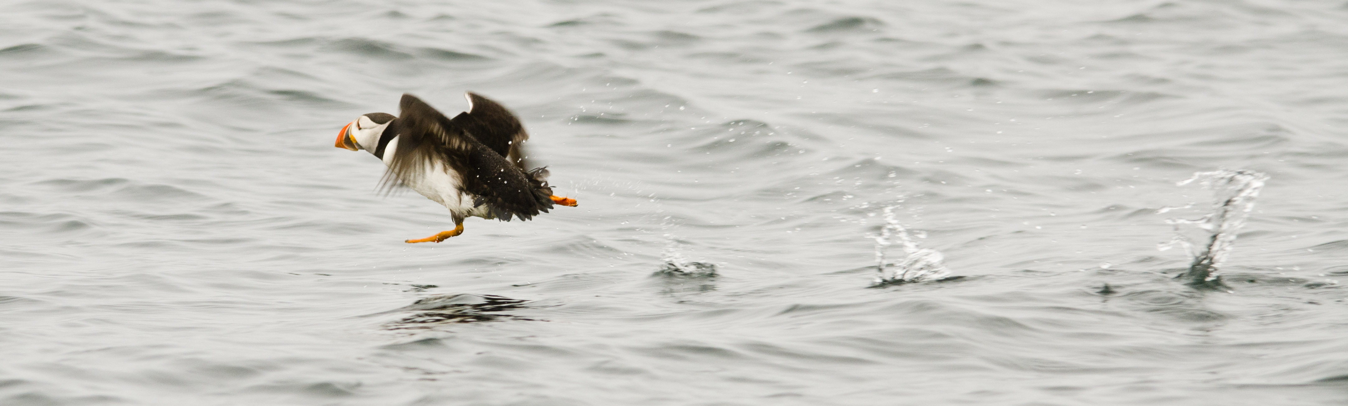 An Atlantic Puffin Fratercula arctica taking off from the sea near the Farne Islands, Northumberland, England.